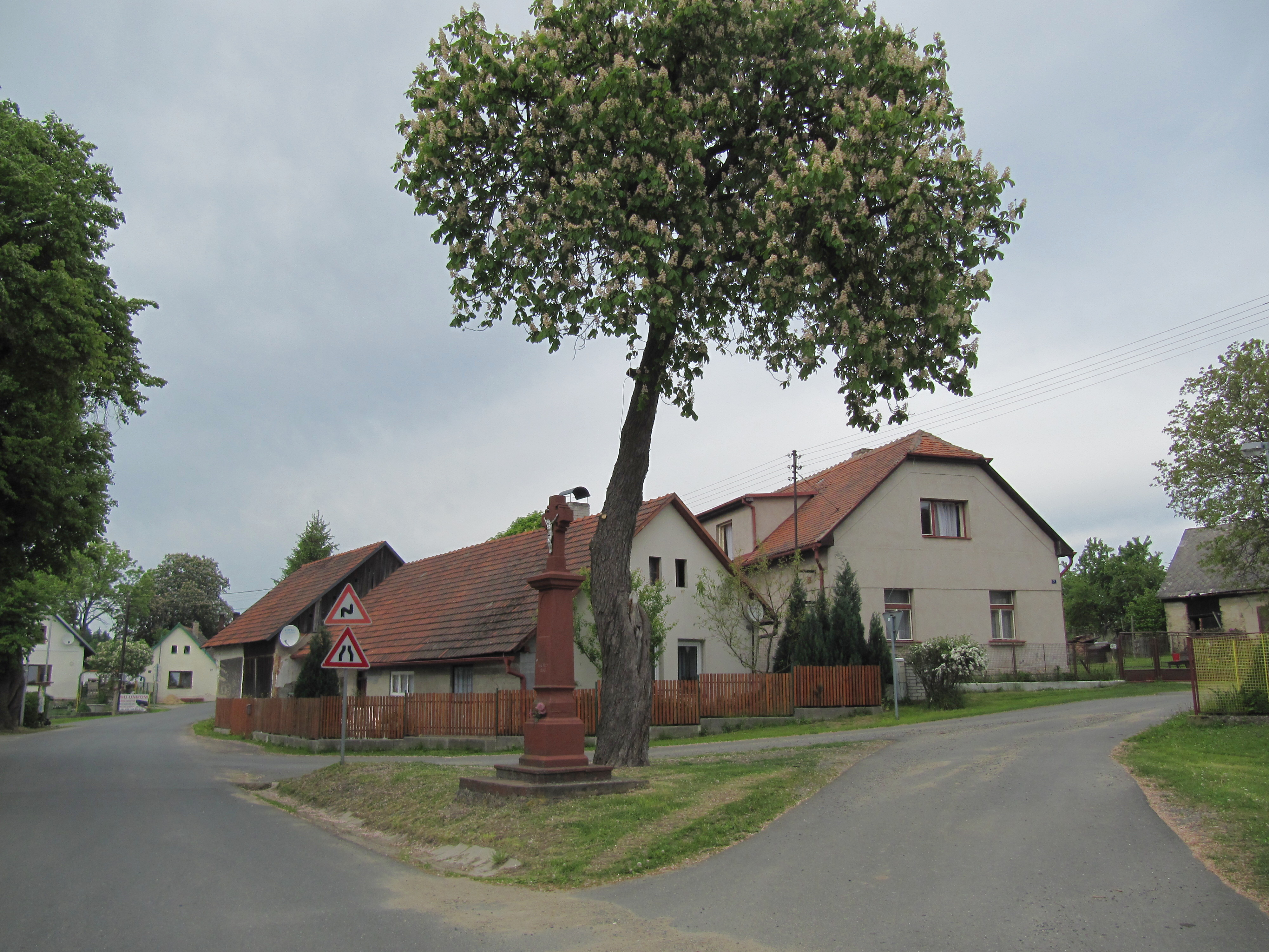 Sázava in Benešov District, Czech Republic, part Bělokozly. Crucifix from 1863.